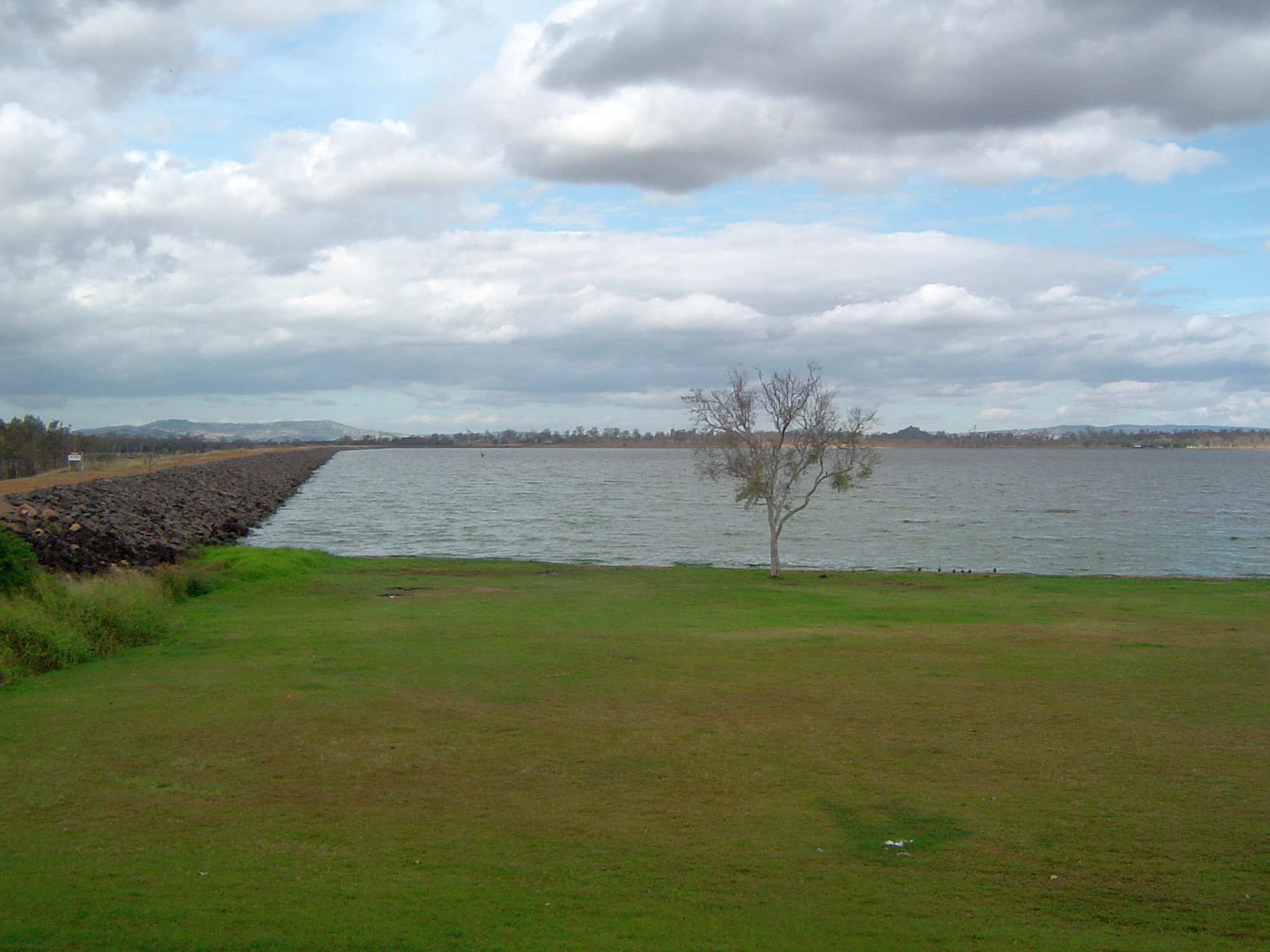 Photo of the dam wall of Atkinson Dam.